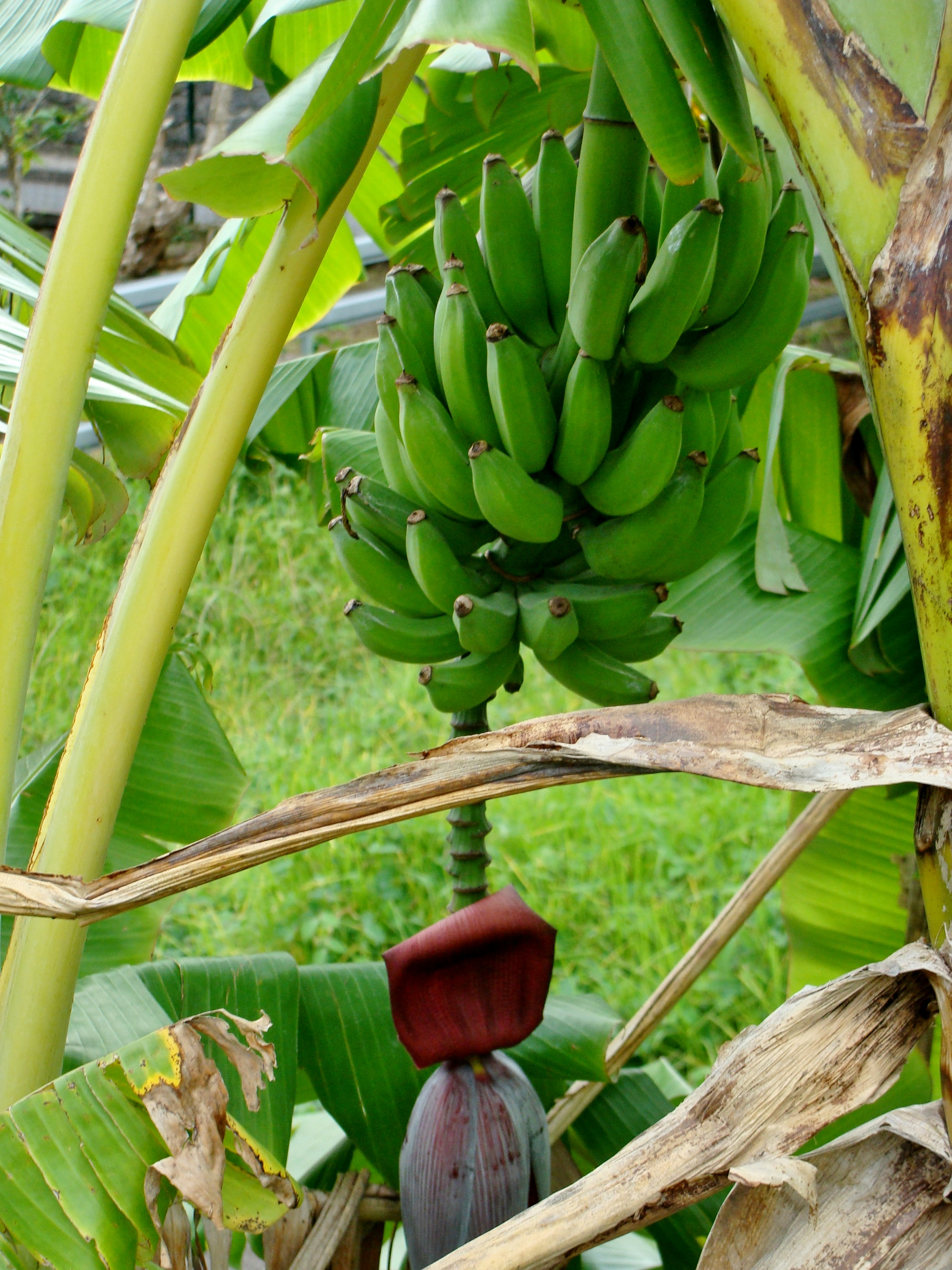 Banana three in Réunion